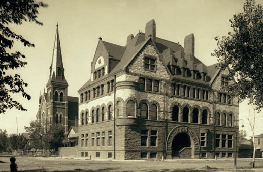 Denver Athletic Club, designed by Varian and Sterner in 1889